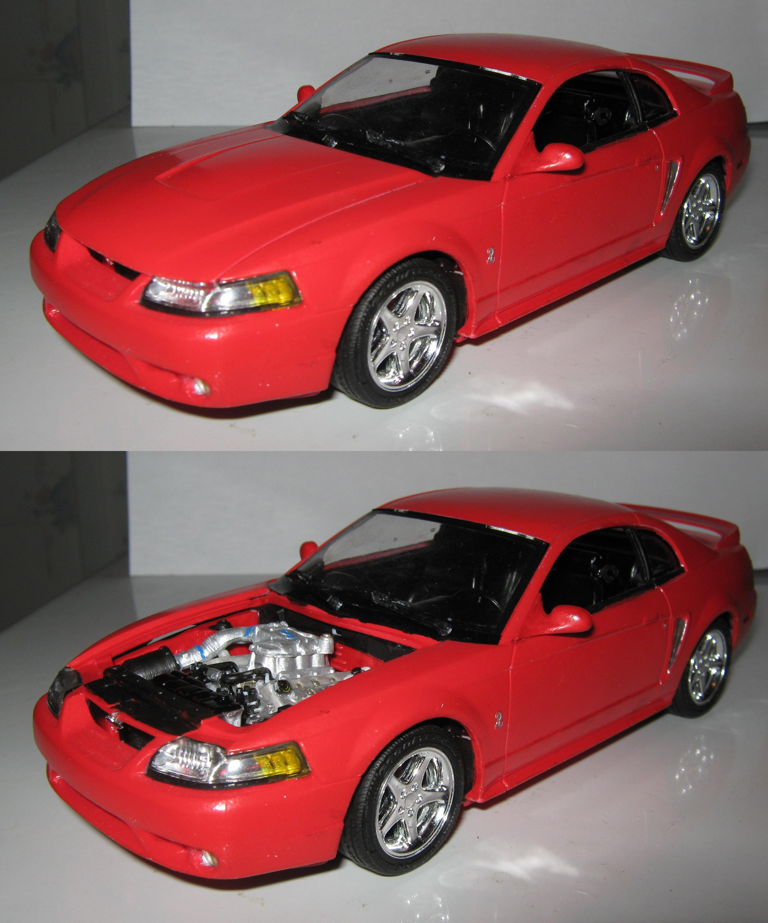 Revell Monogram 1999 Ford Mustang Cobra, completed model